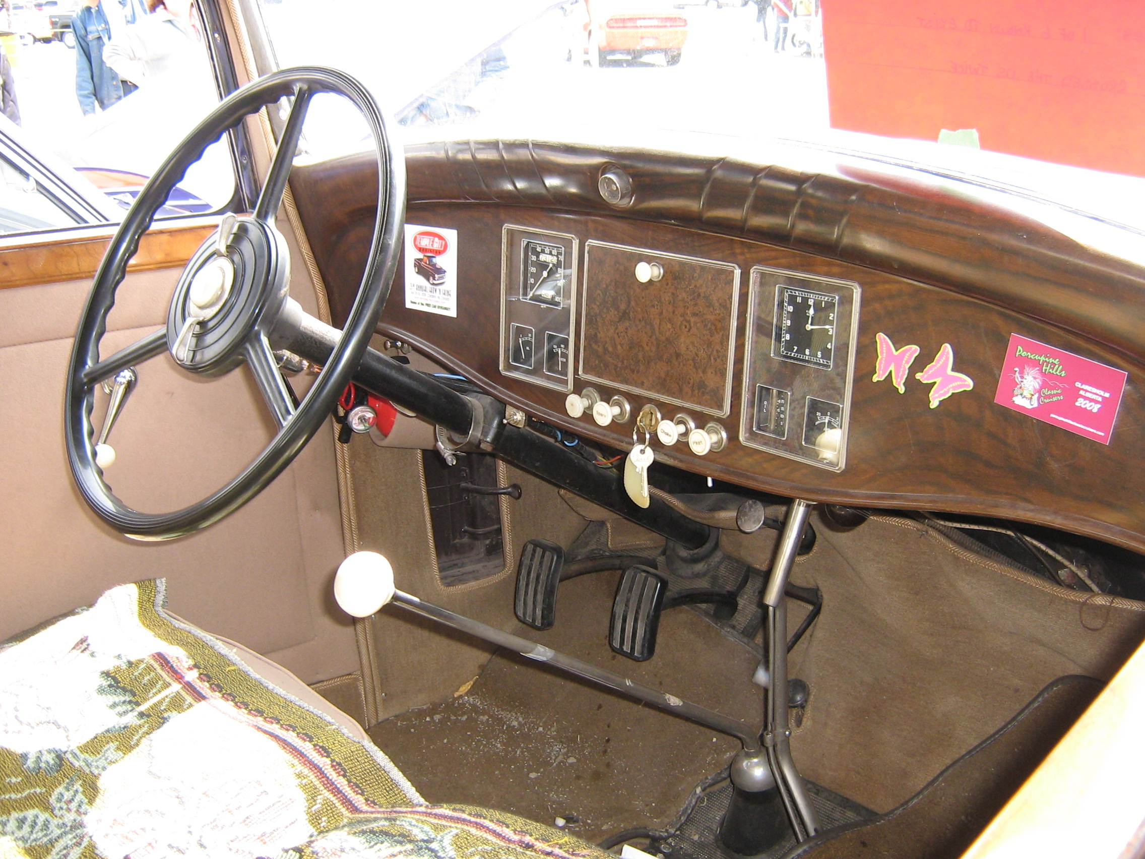 1931 Reo Royale 8-35 - according to the sign its one of six left.